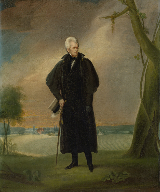 Andrew Jackson Artist Ralph Eleaser Whiteside Earl, c. 1788 - 1838 Sitter Andrew Jackson, 15 Mar 1767 - 8 Jun 1845 Date 1830 Type Painting Medium Oil on canvas Dimensions Image: 76.2 × 63.5 cm (30 × 25") Frame: 110.5 × 98.1 cm (43 1/2 × 38 5/8") Credit Line Current Owner: Jeanne Lee Sataloff Object number L/NPG.5.2013 Exhibition Label Andrew Jackson transformed the office of the presidency into one of dynamic leadership and national initiative. No longer would the chief executive be merely an armchair overseer of Congress and the nation at large. Moreover, his sweeping reform program extolled the principles of democratic government by the will of the people. These tenets of Jacksonian democracy still resonate today. This portrait of Jackson by his close friend Ralph E. W. Earl—a widower who was a frequent guest at the White House—depicts the president as he looked in 1830. Jackson stands on the grounds of the Hermitage, his Tennessee plantation near Nashville. In 1832 the Pendleton Lithography Company in Boston published a popular lithograph after this portrait, which Earl referred to as his “Farmer Jackson” image. The painting is on loan from the descendants of Jackson’s staunch friend and political patron Francis Preston Blair. Data Source Catalog of American Portraits See more items in Catalog of American Portraits Exhibition America's Presidents (Temporary Installation) On View NPG, West Gallery 240